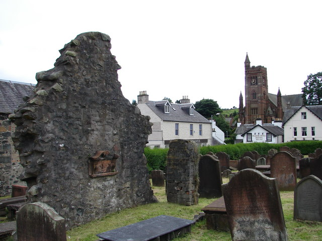 Old Parish Church Remains, Moffat The scant remains of Moffat’s medieval church stand in the old parish graveyard. Beyond is St Andrew’s Parish Church (1884-7) with its central bell tower.